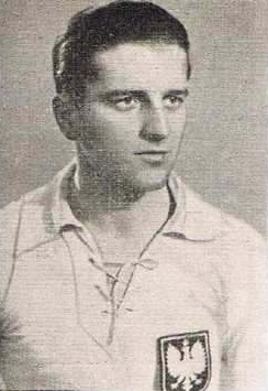 Michał Matyas, polish football player.